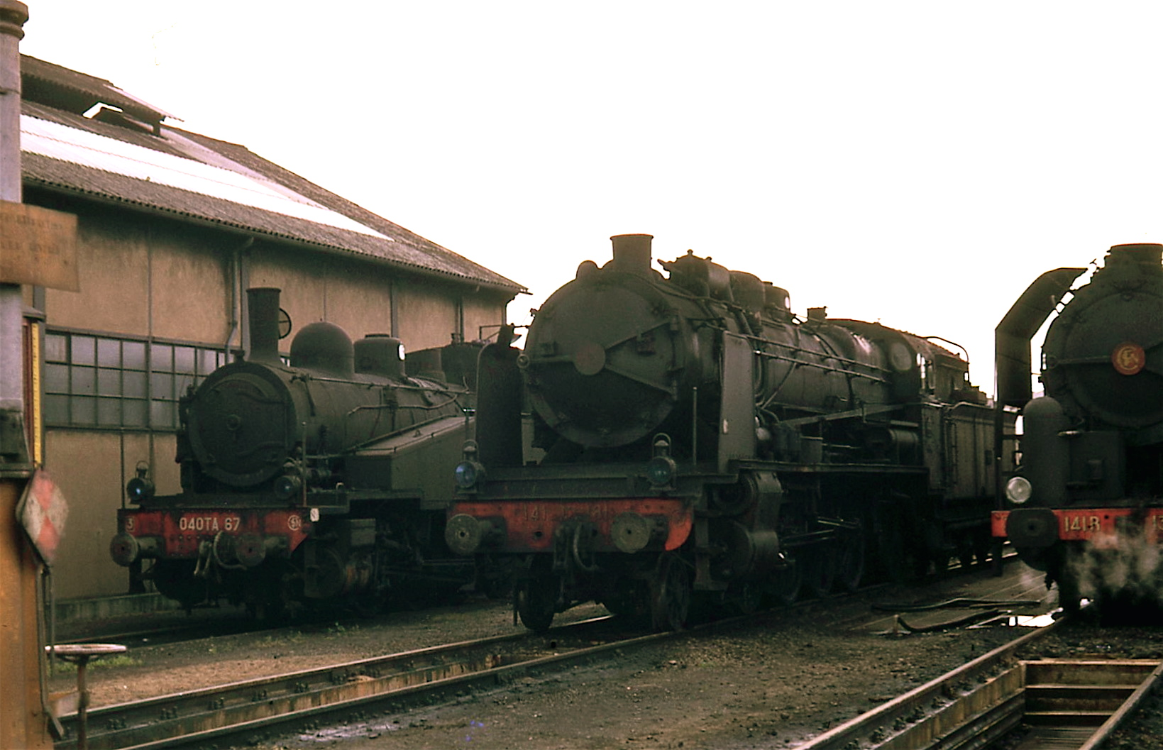 Etat 141E181 St Nazaire 1969